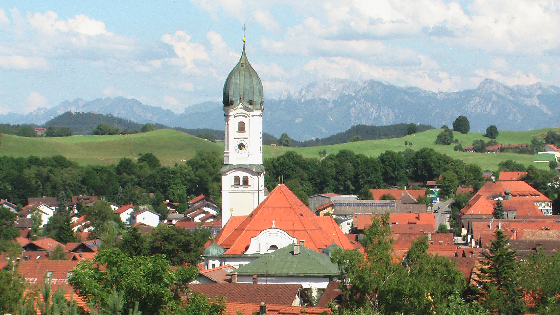 The village Nesselwang in Germany.